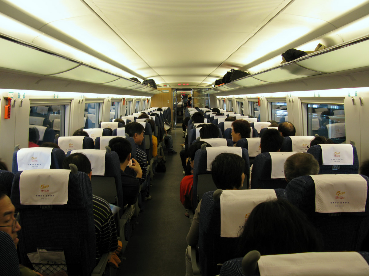 Second Class Seat of Wuhan-Guangzhou High-Speed Railway CRH3C EMU